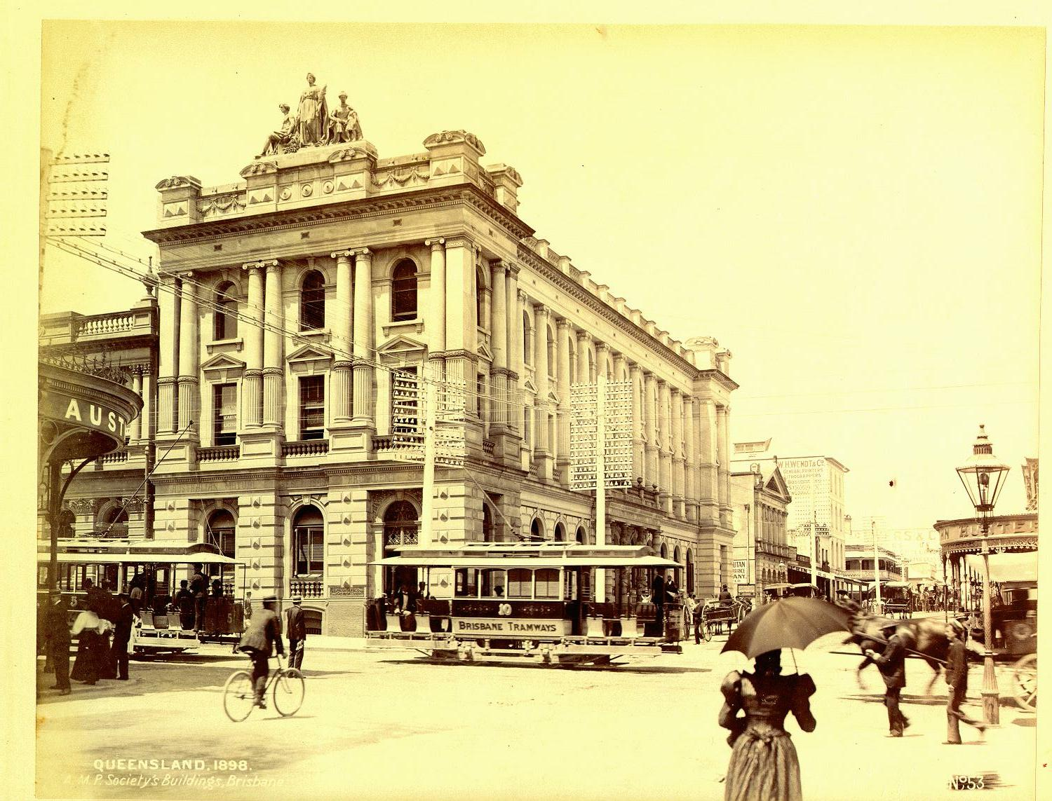 The original AMP Society Building 1898 Taken from Edwartd Street. Old photos of Brisbane sent to me by a friend. None of these are mine of course but I can't resist posting them for all to see. Copyright on this image has expired.